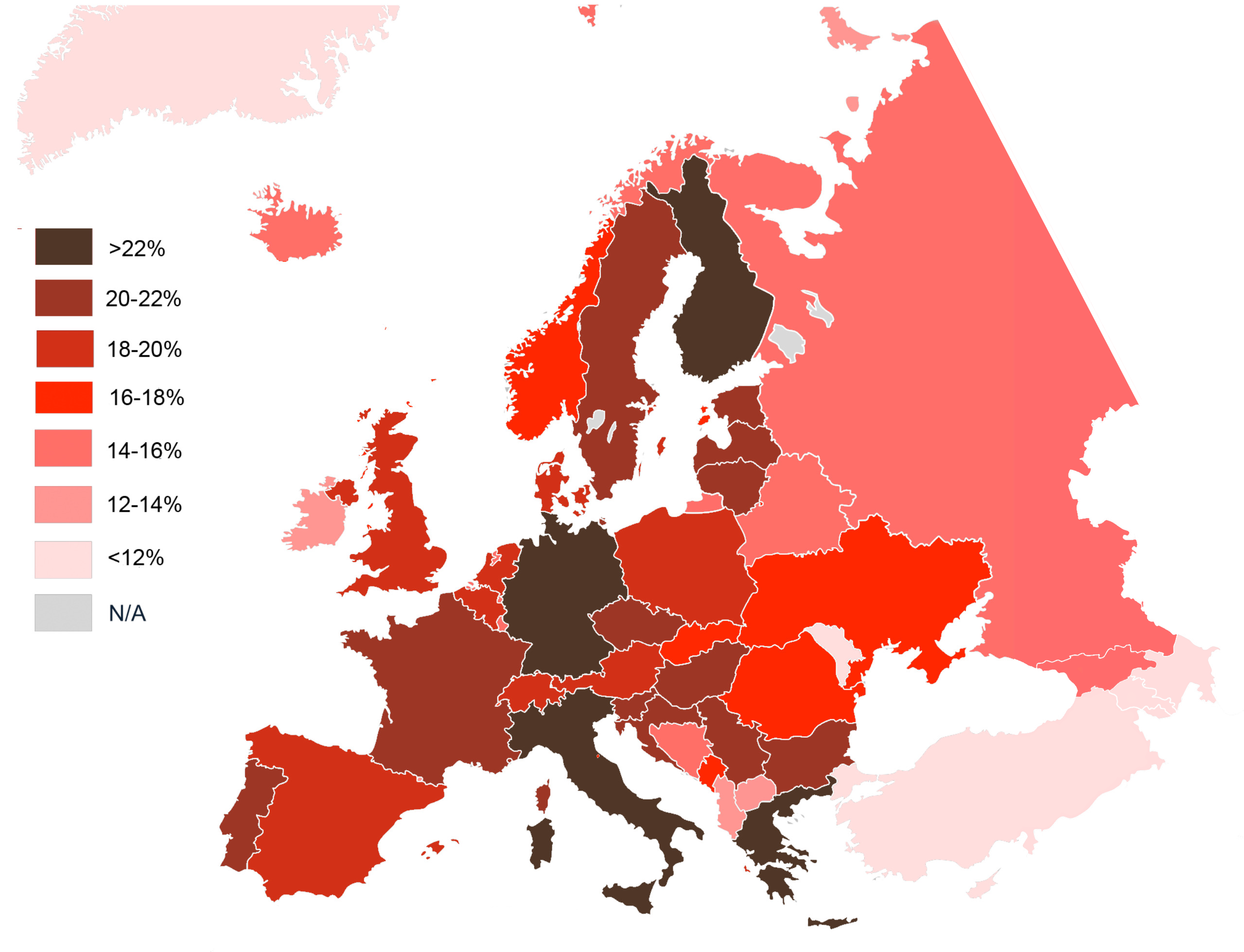 Map of Europe showing the percentage of the population over 65 in 2010 for each country. Based on data from the CIA World Factbook.